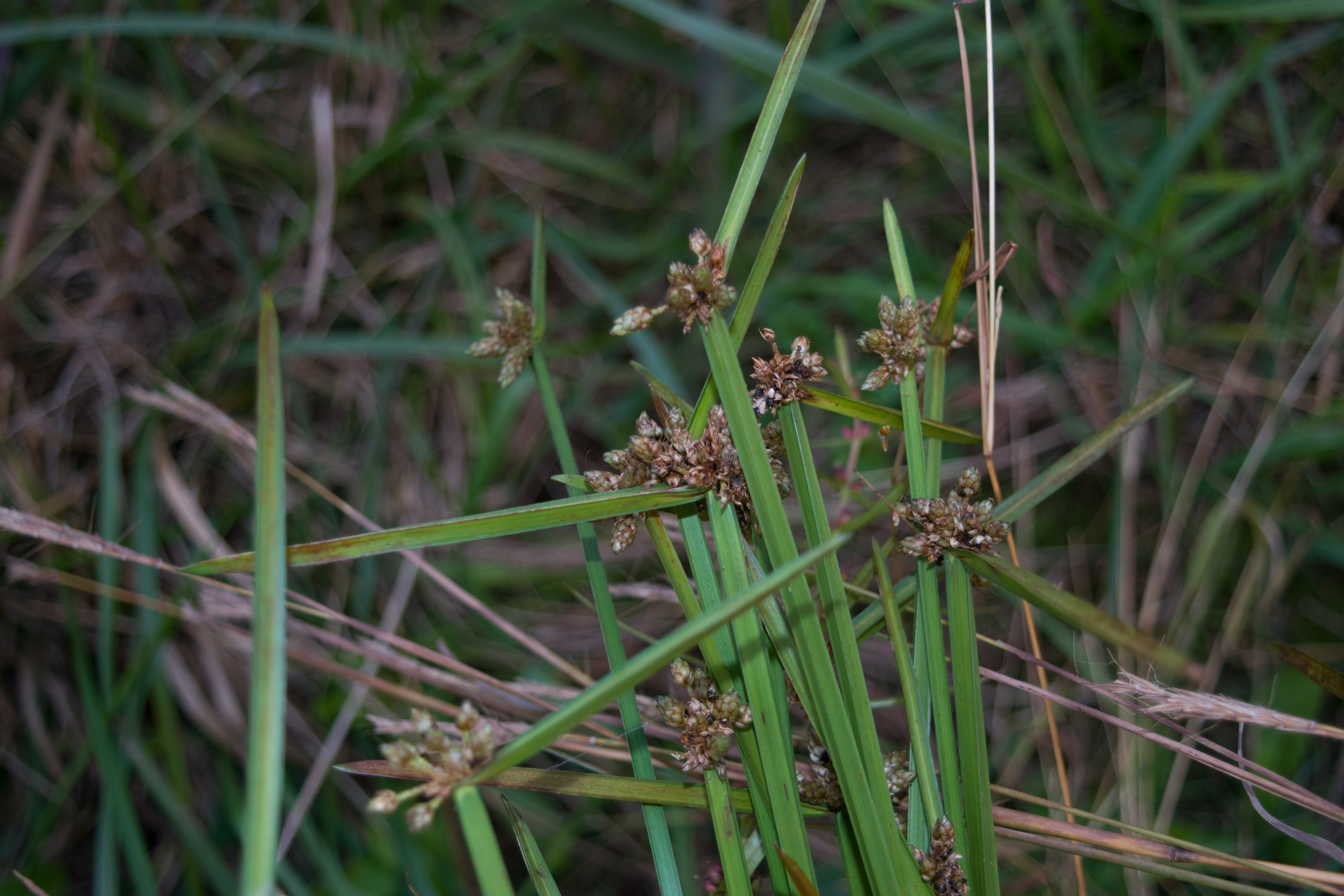 Schoenoplectus mucronatus growign from a wetland in Pennsylvania